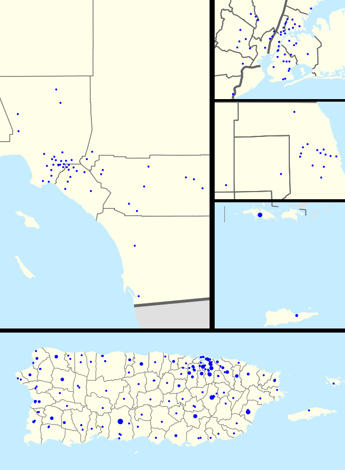 Footprint of Popular branches. On the bottom, Puerto Rico; on the upper left, Los Angeles metropolitan area; on the right, from top to bottom: New York City metropolitan area (including New Jersey), Chicago metropolitan area, and the US Virgin Islands. The map is to scale with the exception of the Los Angeles section, which is at a scale of 2:1 miles compared to other images.